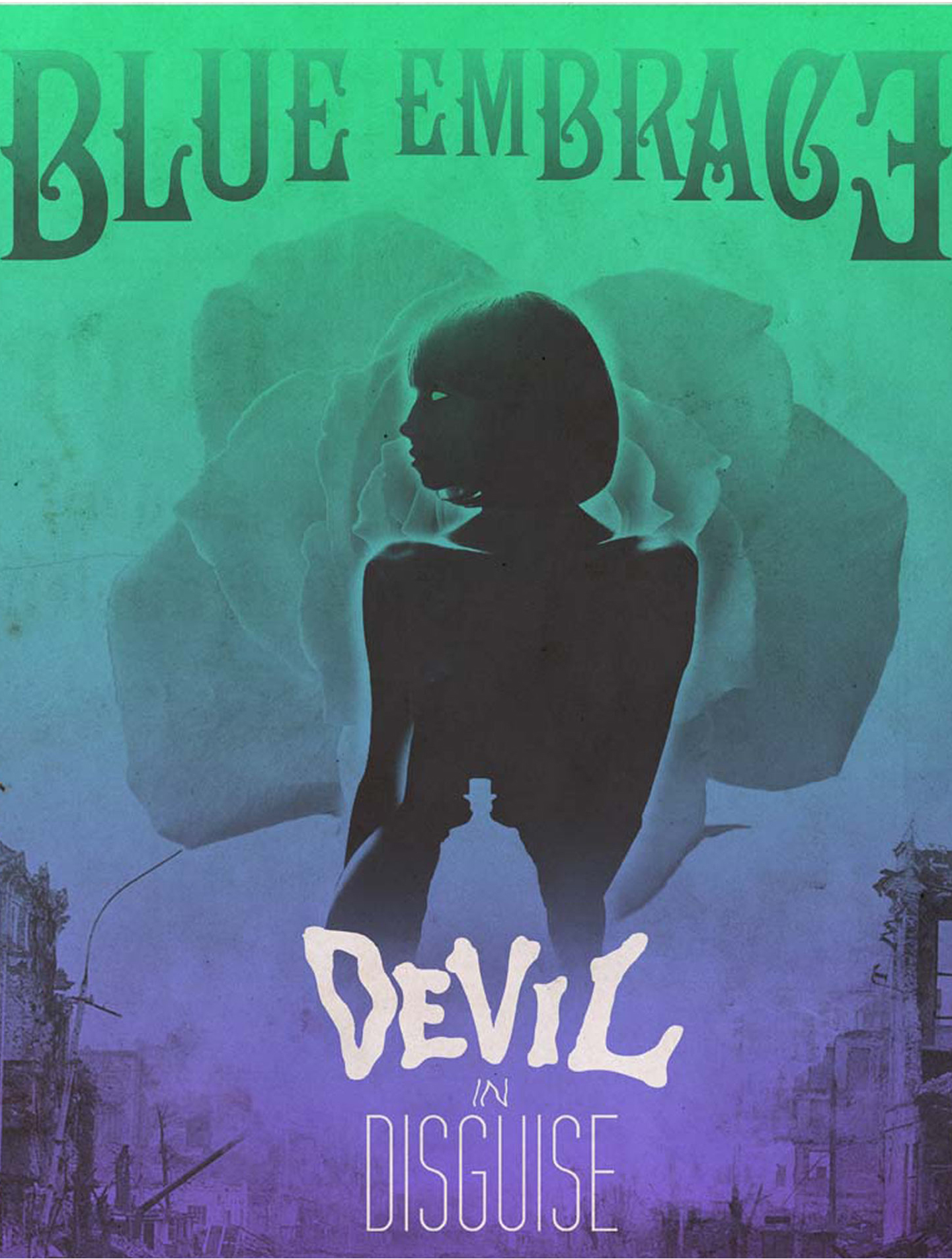 Oz Chiri & Blue Embrace live Circa 2013